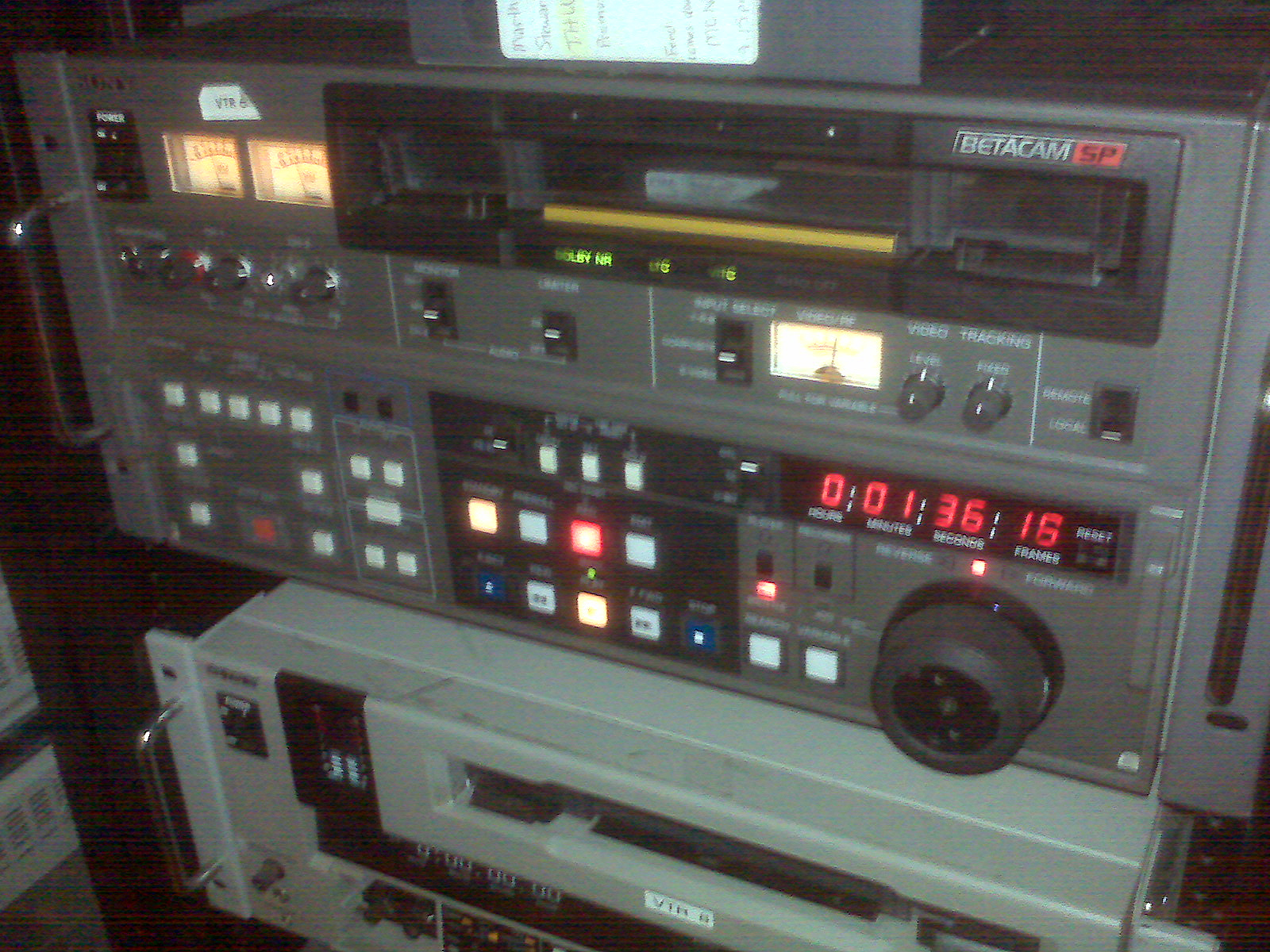 This Sony PVW-2800 BetacamSP VTR is used daily in Nexstar Broadcasting's West Central Texas' master control facility in Abilene, Texas.